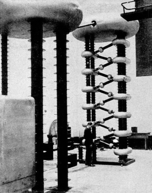 1.2 megavolt Cockcroft-Walton particle accelerator (background) at the Clarendon Laboratory, Oxford University, UK in 1948. It consists of a 6 stage voltage multiplier stack with a large globe to store charge at the top. The black segments of each column contain capacitors to store the charge, while the diagonal "crossrungs" contain high voltage vacuum tube rectifiers called kenotrons, which only conduct current in one direction. An alternating voltage of several hundred kilovolts is applied between the bottom columns. The columns function as a charge pump, pumping electric charge up the columns until the top terminal is at a potential of 1.2 million volts. The voltage is applied to opposite ends of an evacuated accelerator tube (not shown) which accelerates charged subatomic particles traveling through it to high speeds. All the metal parts of the machine must be covered by smooth curved metal "corona rings" to prevent corona discharge, which can cause charge to leak into the air. The Cockcroft-Walton accelerator was invented by British physicists John Douglas Cockcroft and Ernest Thomas Sinton Walton in 1932.